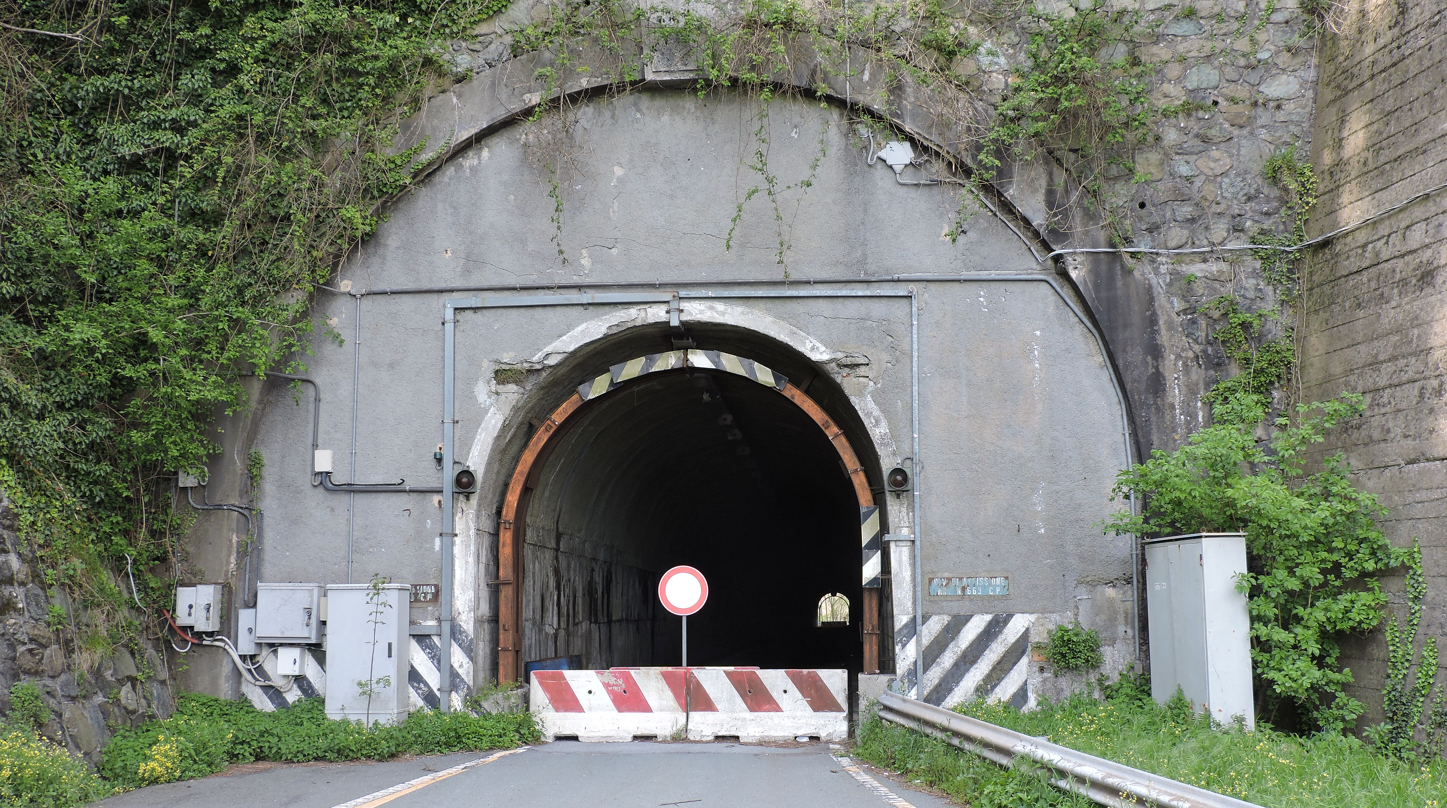 Passo del Turchino (Ligurian Apennine, Italy): old tunnel